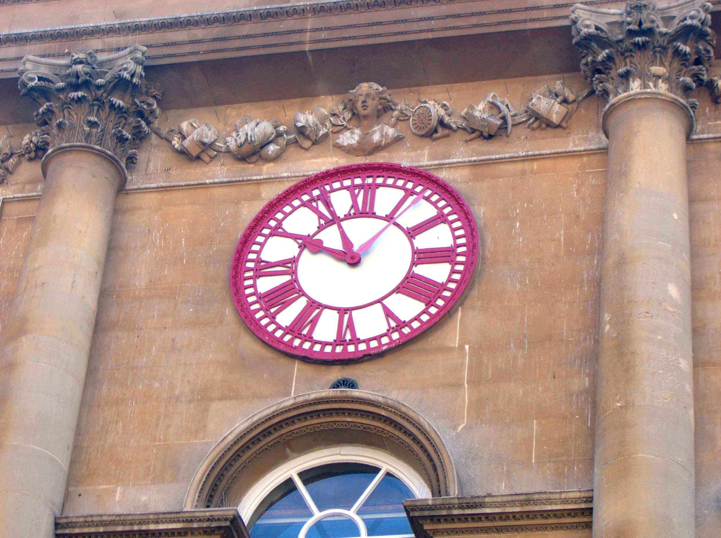 Clock on the Exchange, Bristol. Showing extra hand for "Bristol Time". Taken by Rod Ward 20th April 2007